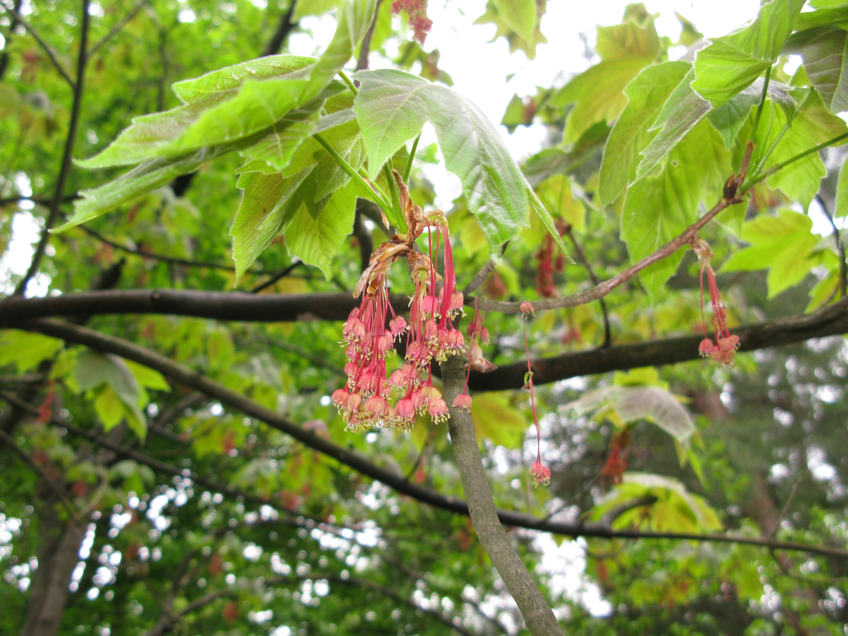 Acer diabolicum, Aizu Matsudaira's Royal Garden, Fukushima pref., Japan